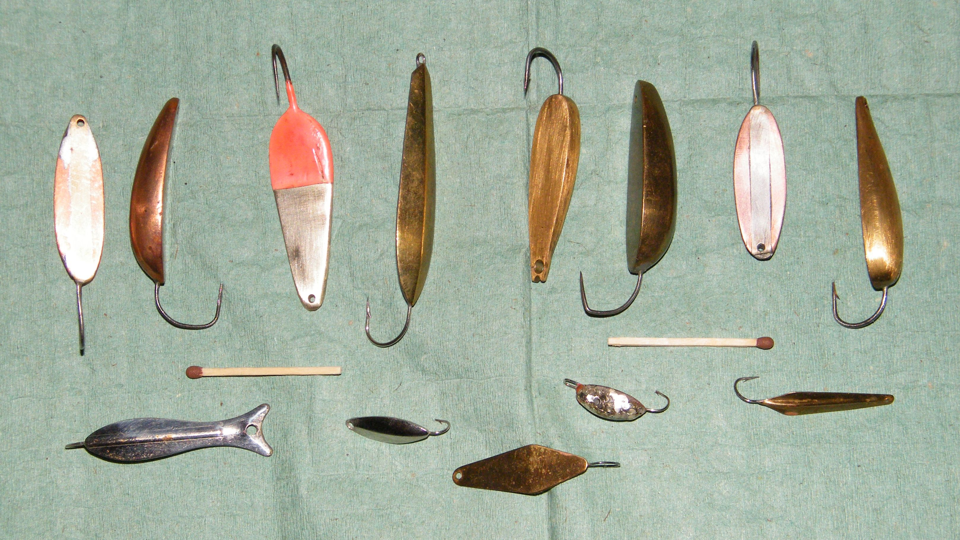 Fishing lure